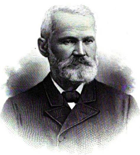 Alexander Kerr Craig, US Representative from Pennsylvania